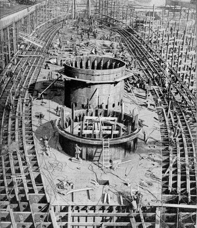 Photograph of the hull of the USS Maryland (BB-46) laid down in the shipyard during construction in 1917